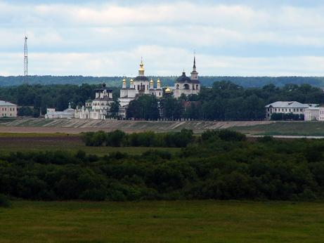 Veliky Ustug from the Belltower of the Troitse-Gledensky Monastery